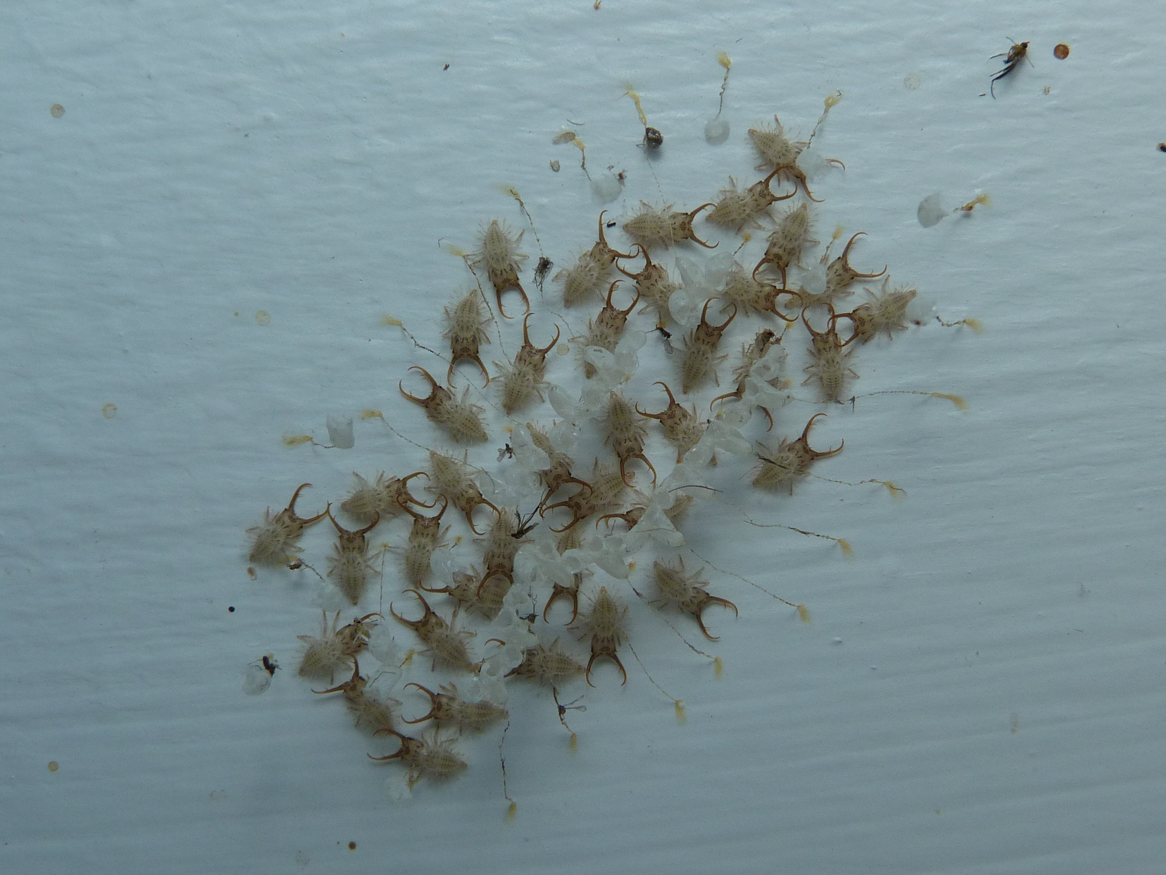 Nymphes myrmeleonoides, Leach, 1814, larvae recently emerged from eggs laid in characteristic U-shape, Aranda, ACT, 9 February 2011 Identification based on close resemblance to drawing of Nymphidae larvae in Insects of Australia (in distinction from other neuropteran larvae illustrated), and the statement in that work that the U-shaped egg cluster is distinctive of the species.